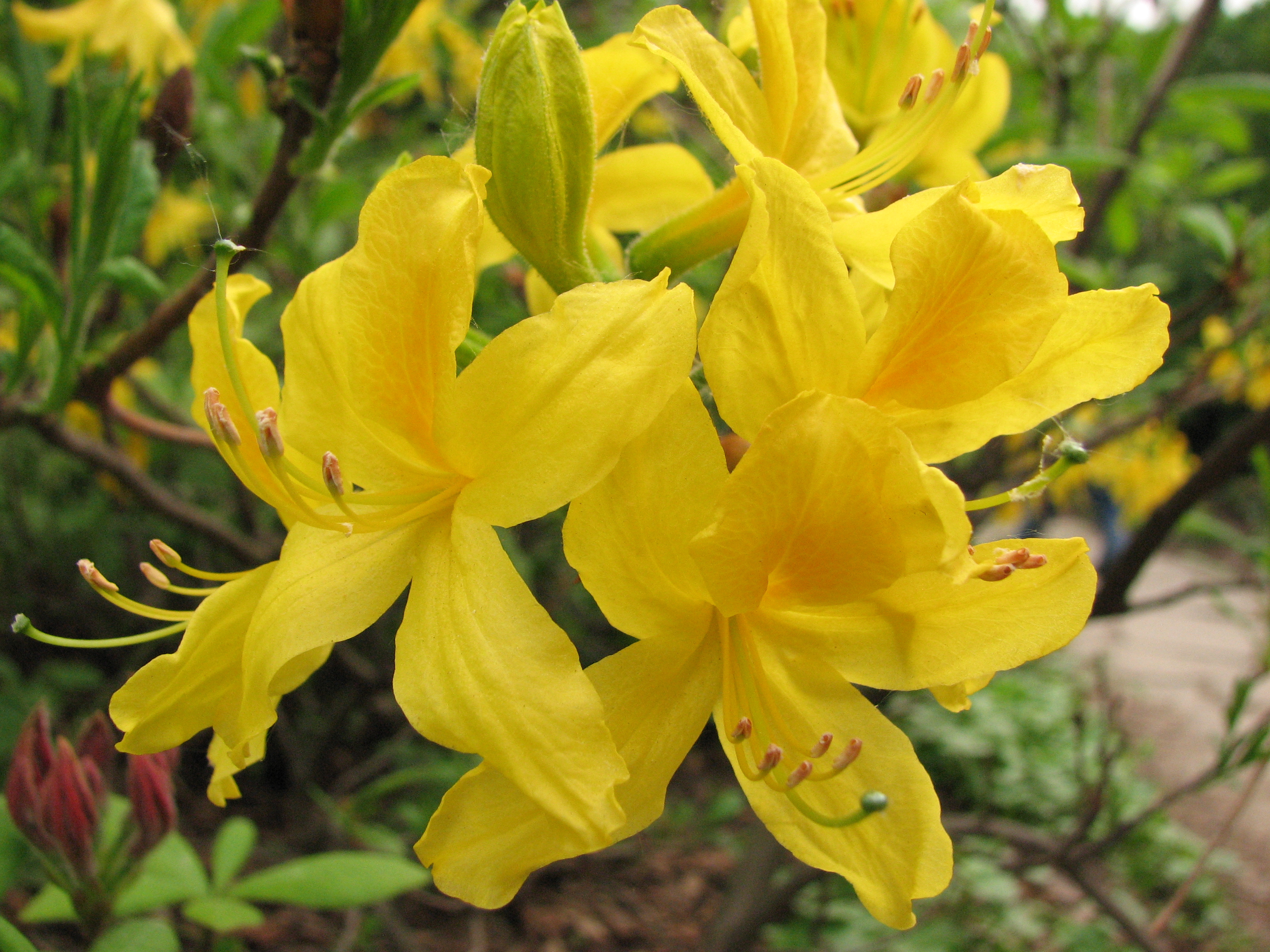 Rhododendron luteum in the botanical garden "Aptekarsky Ogorod'. Moscow.